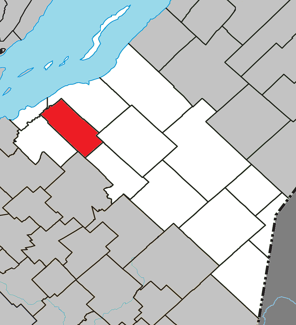 Location of Saint-Pierre-de-la-Rivière-du-Sud, Quebec within Montmagny Regional County Municipality.